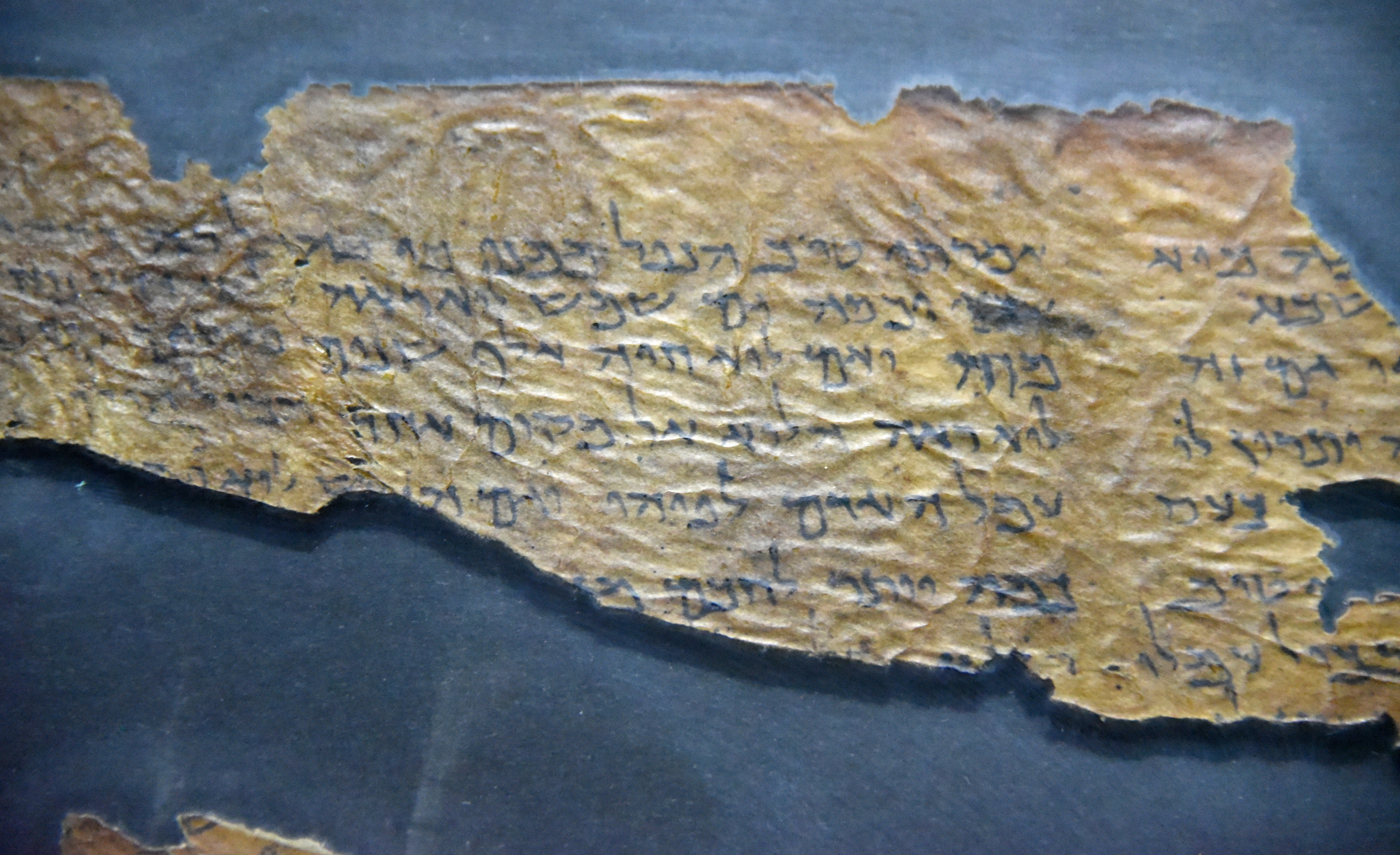 This is part of Dead Sea Scroll number 109 (4Q109), also known as Qohelet (Ecclesiastes). From Qumran Cave 4. From Qumran (Khirbet Qumran or Wadi Qumran), West Bank of the Jordan River, near the Dead Sea, modern-day State of Israel. The Jordan Museum, Amman, Jordan Hashimite Kingdom.